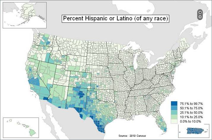 Hispanic Population as a Percentage of County Population: 2010